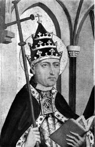 image of a painting of st. gregory II